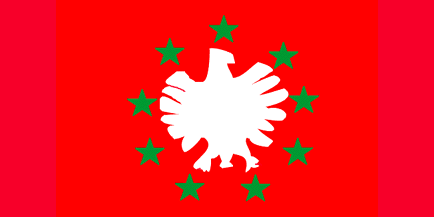 Flag of the SSLF and SSLM